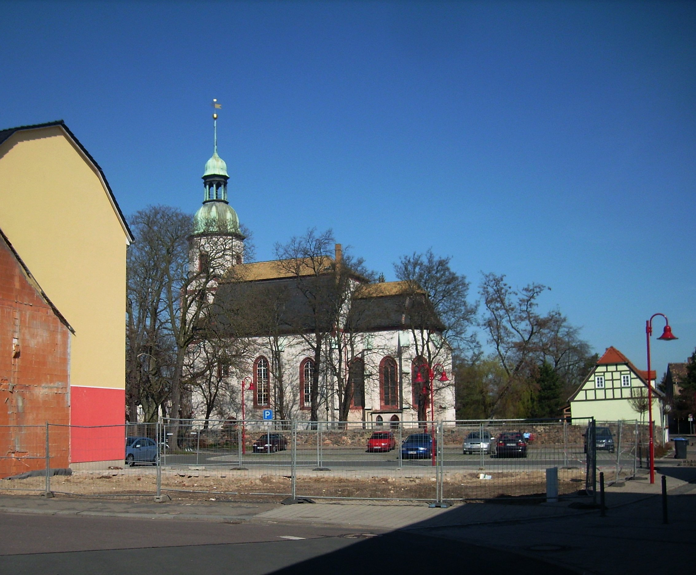 The church of the town of Naunhof (Leipzig district, Saxony) from the south